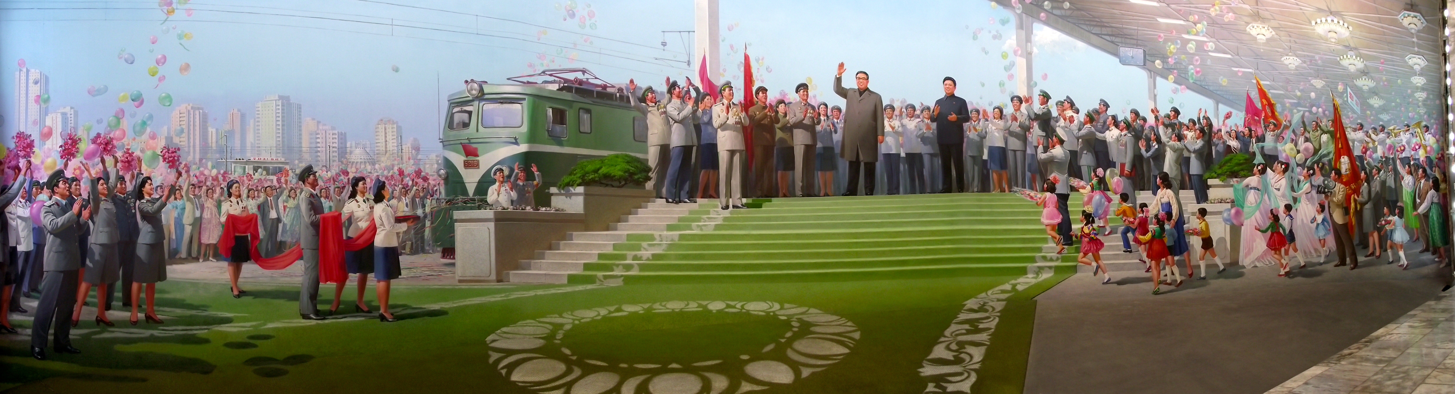 Propaganda of North Korea